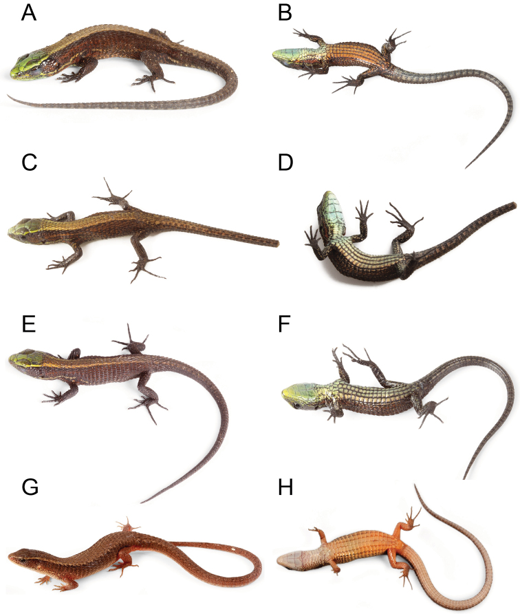 Species of Alopoglossus from western Ecuador. A, B Alopoglossus viridiceps sp. n., paratype QCAZ11854, juvenile male, SVL = 38.67 mm C, D Alopoglossus viridiceps sp. n., paratype QCAZ10671, juvenile female, SVL = 33.80 mm E, F Alopoglossus viridiceps sp. n., paratype QCAZ11855, juvenile, SVL = 31.59 mm G, H Alopoglossus festae, QCAZ 9161, female, SVL = 46.89 mm.